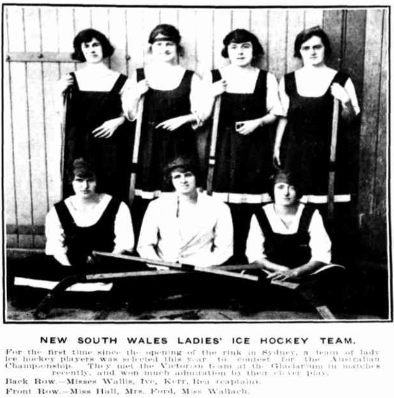 New South Wales Womens Ice Hockey Team 1922